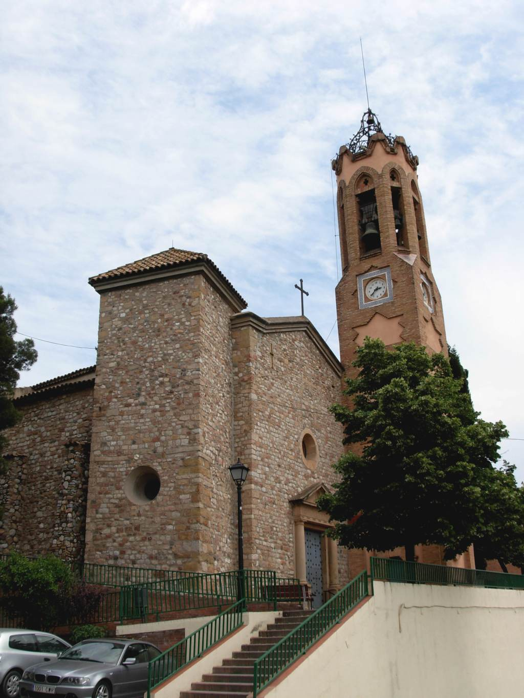 Ripollet Church